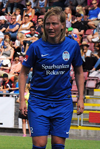 Sofie Persson (Eskilstuna United)